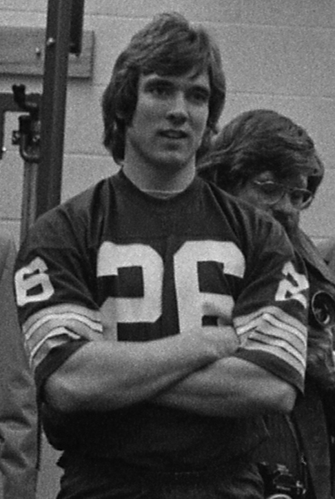 1976, April 3 – Green Bay Packers Hall of Fame – Green Bay, WI – Gerald R. Ford, Bart Starr, Tom Hutchinson, Media – touring memorabilia exhibits inside – Campaign Trip to Wisconsin; Dedication Ceremony Green Bay Packers Hall of Fame. This photograph depicts President Gerald R. Ford speaking with Green Bay Packers players Keith Wortman (#65), Mike McCoy (#76), and Eric Torkelson (#26) in the weight room during a tour of the Green Bay Packers Headquarters in Green Bay, Wisconsin.